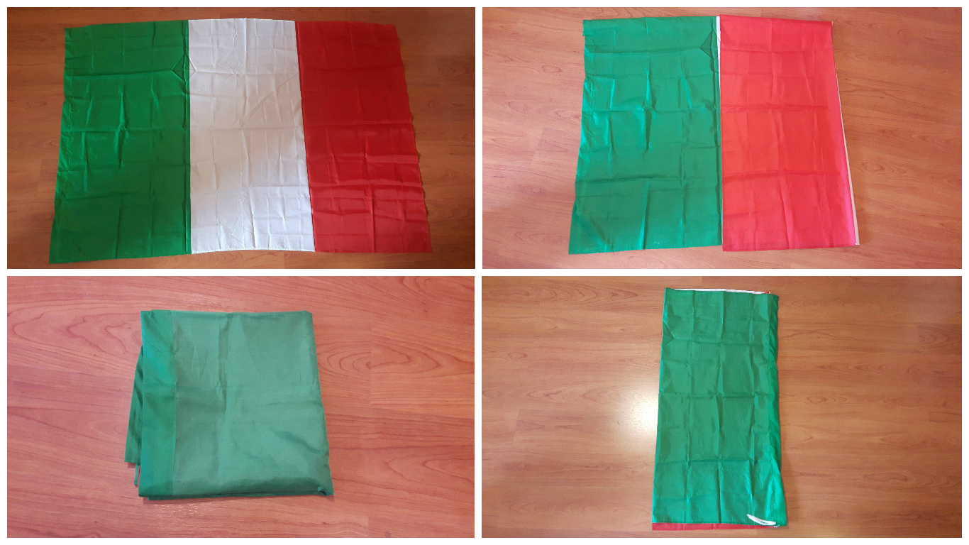 Clockwise collage that explains the modality on how to correctly bend the Italian Flag